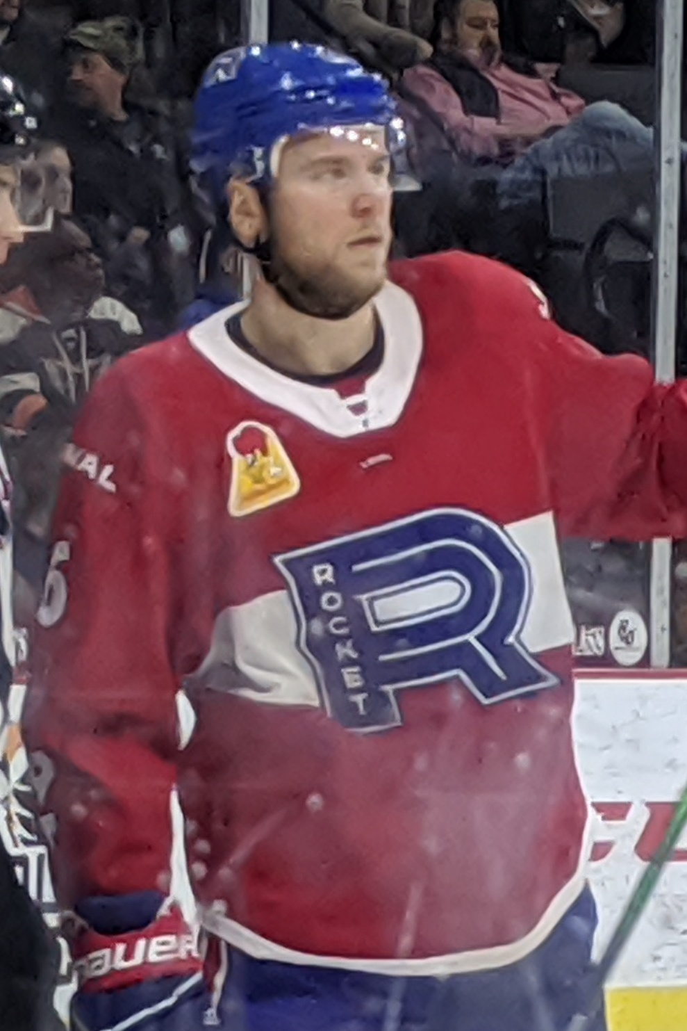 Christian Folin, a forward with the Laval Rocket ice hockey team, at the PPL Center in Allentown, Pennsylvania, on January 11, 2020.